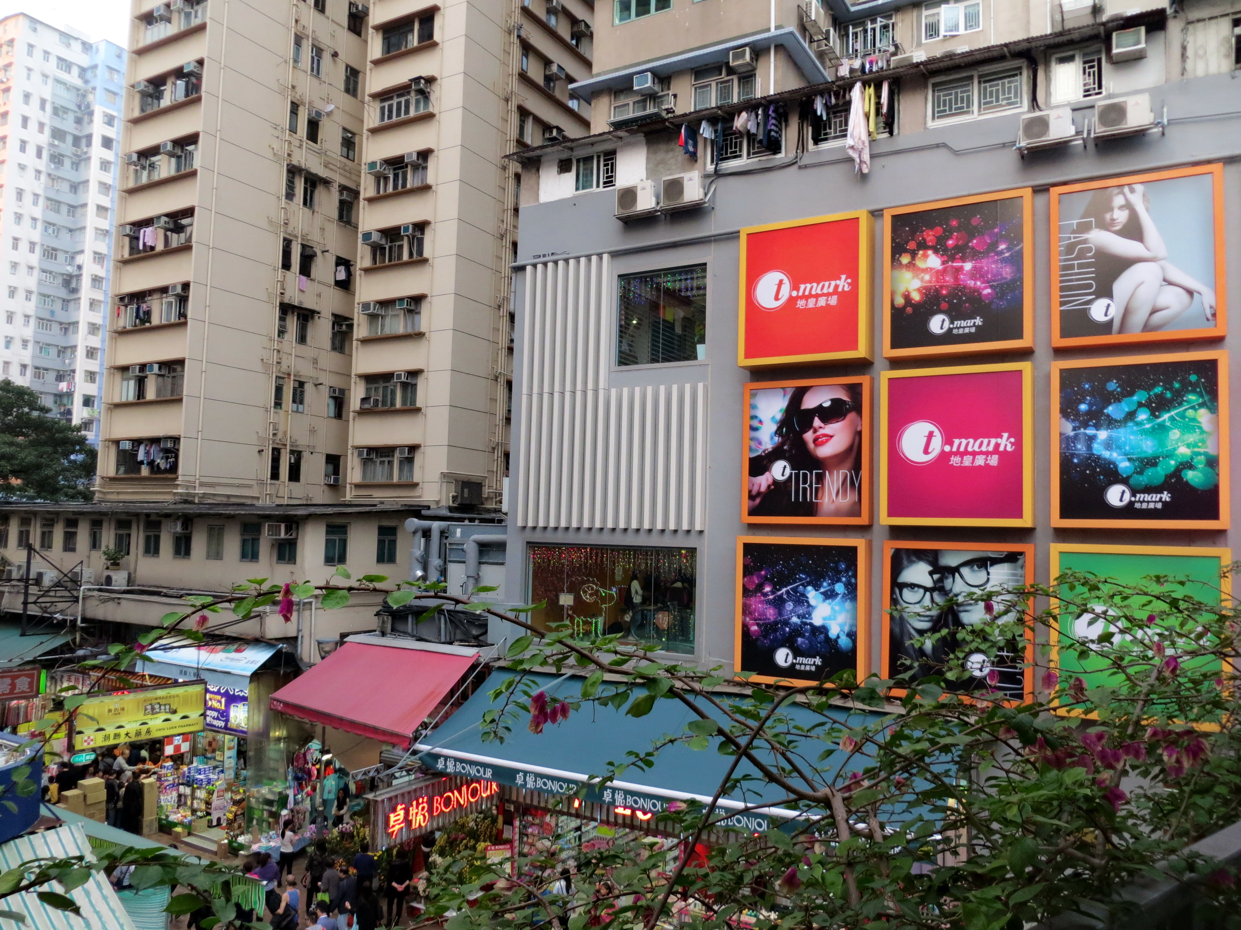 T.mark shopping mall, Tai Ho Road, Tsuen Wan, Hong Kong.